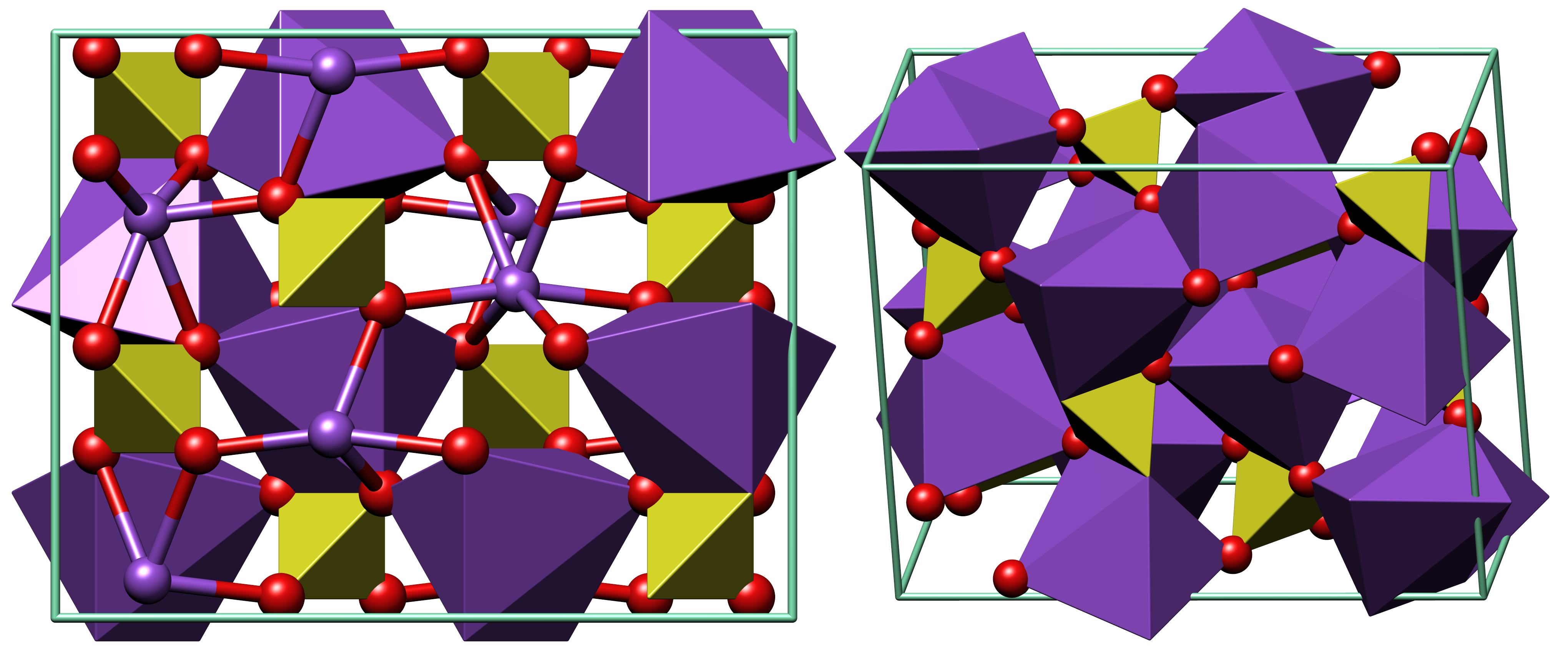 Crystal structure of thenardite - Na2SO4. Zachariasen W, Ziegler G Colour code: Sodium, Na: violet Sulfur, S: olive Oxygen, O: red Cell: blue-green